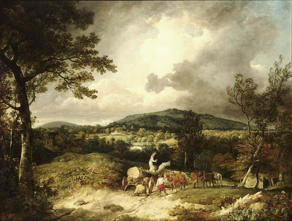 George Arnald (1763-1841), Wood gatherers, looking south, with Highclere Castle, Hampshire, and Beacon and Siddon hills, in the distance, signed and dated 1805, oil on canvas, 40 inches by 54.00 inches. Important 19th Century European Paintings, Drawings & Sculpture (Sale 7373), Lot 15 - Sotheby's, New York (November 03, 1999): $ 16,000 USD / € 15,256 EUR / £ 9,731 GBP (Original Currency of Sale: $ 16,000 USD Hammer). The Leicester Galleries, Ryder Street, London.